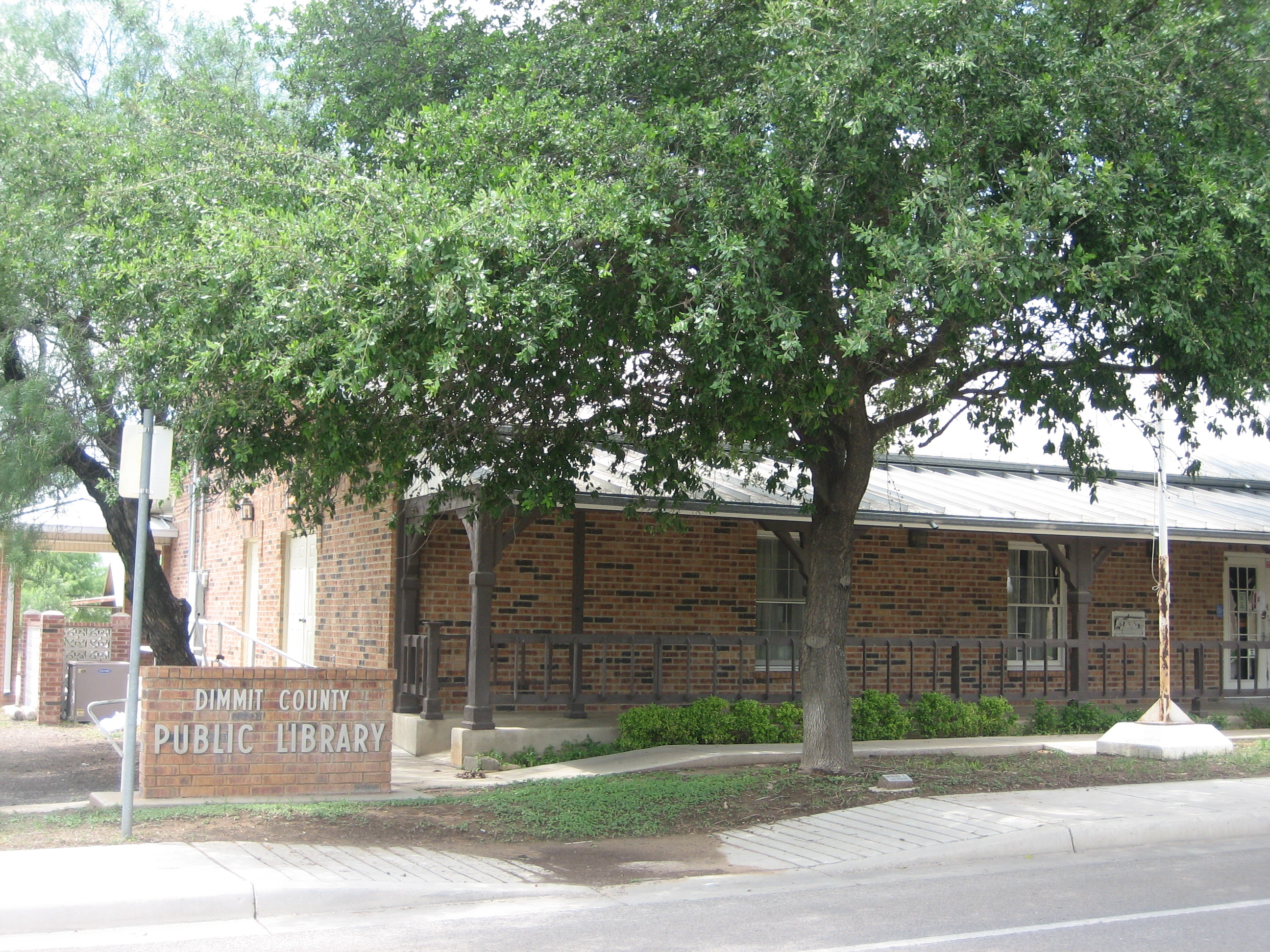 Dimmit County Public Library, Carrizo Springs, Texas